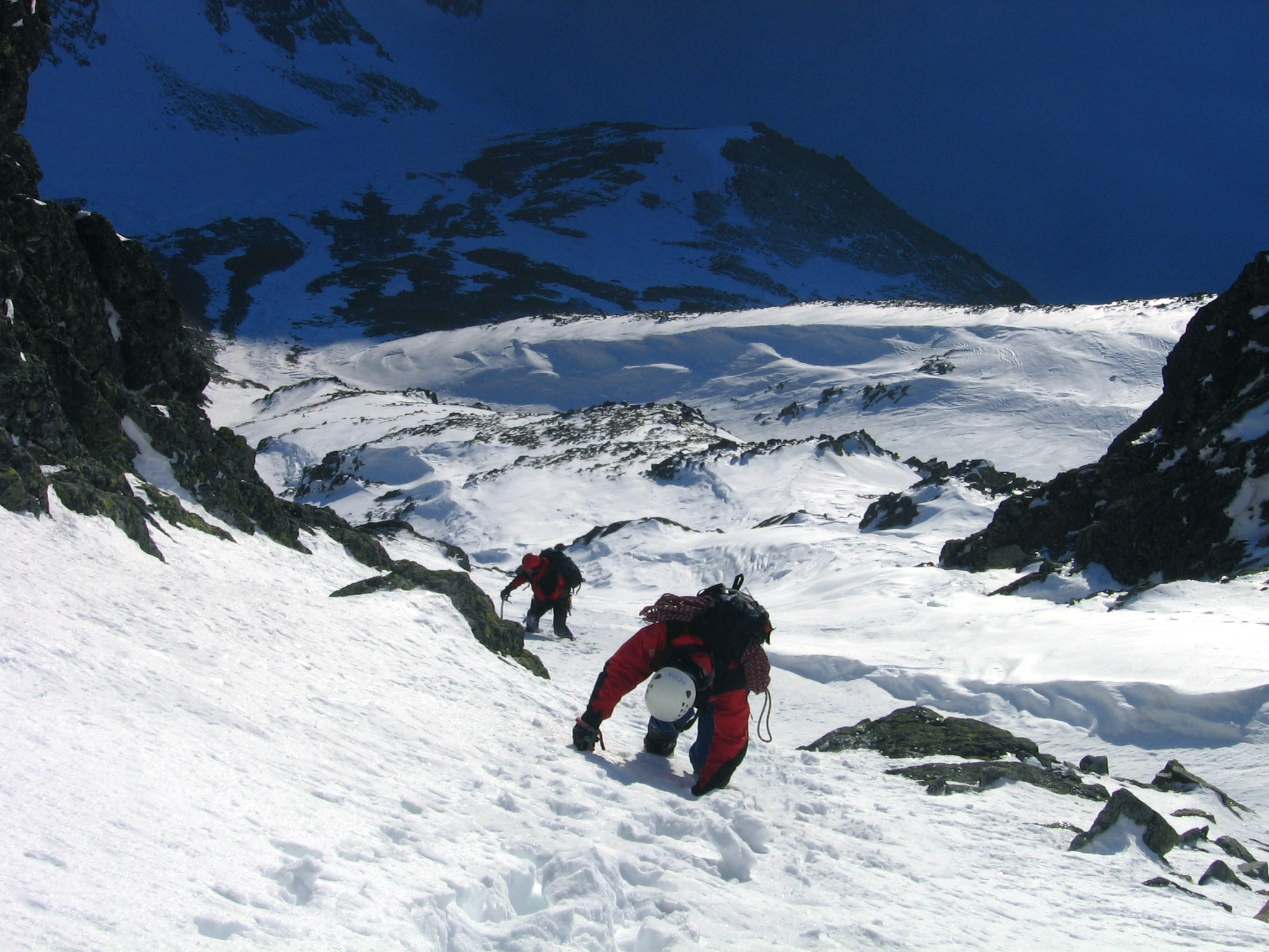 Two mountaineers descending a snow/ice gully from Malý Ľadový štít in Vysoké Tatry mountain range. February 2006.